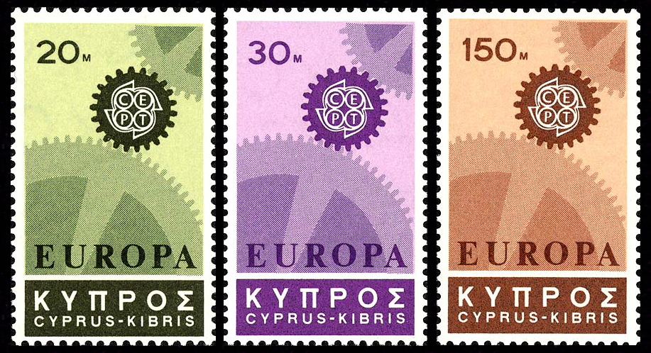 Postage stamps of Cyprus, 1963. Issue on the program EUROPE-CEPT